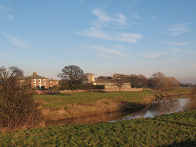 Ellenthorpe Hall across the Ure A large Victorian farmhouse with assorted farm buildings to the side. Seen from the south bank of the river.